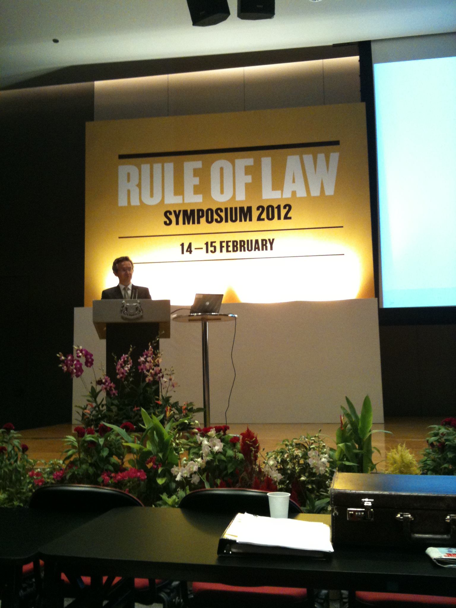 Professor Simon Chesterman, Dean of the Faculty of Law, National University of Singapore, speaking at the Rule of Law Symposium 2012 held at the Supreme Court Auditorium, Supreme Court of Singapore.